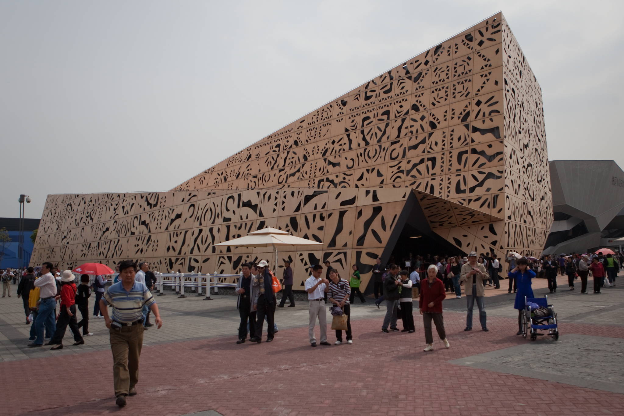 Poland's Pavillion at the 2010 World Expo in Shanghai